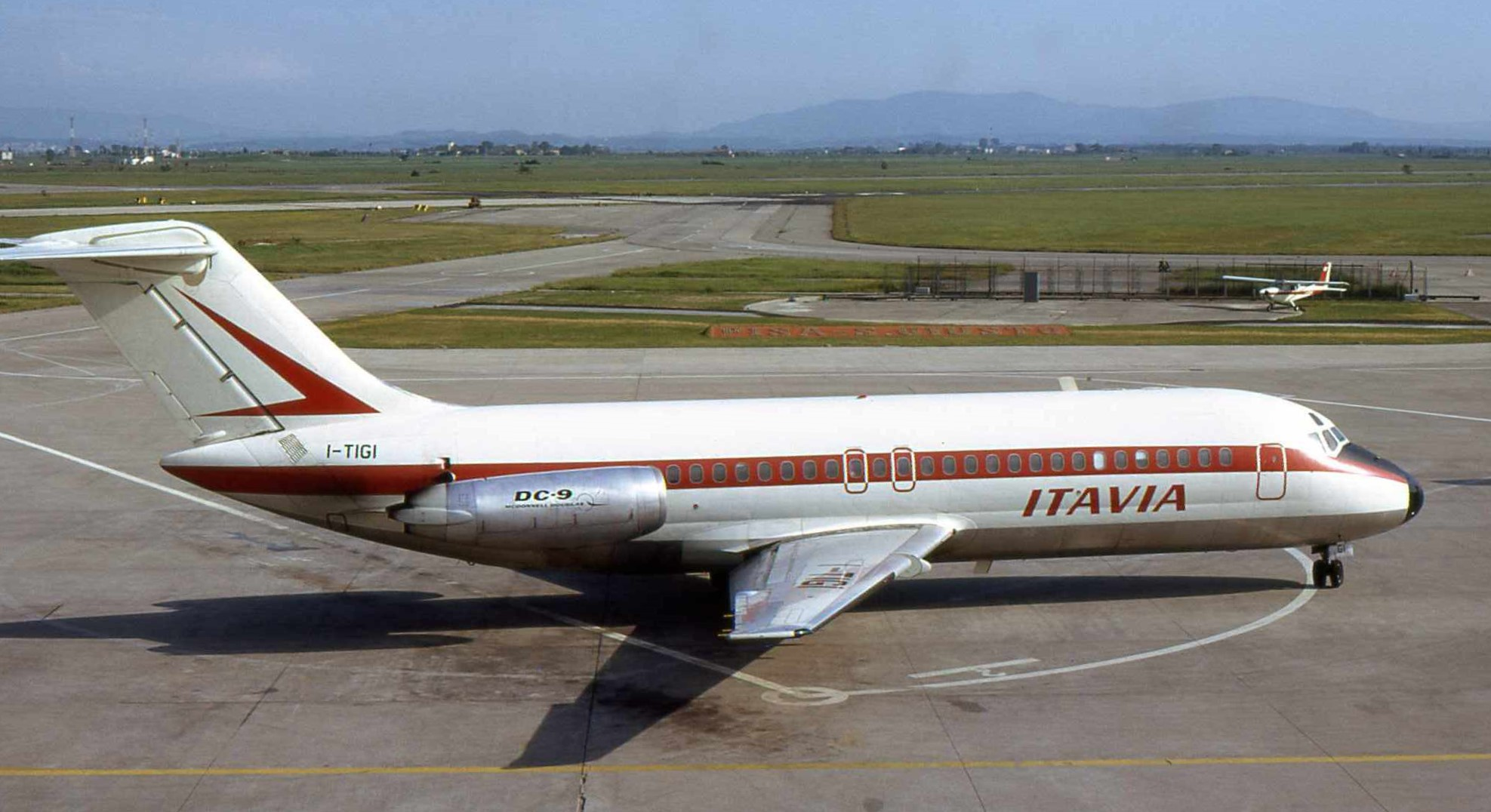 Aerolinee Itavia DC-9 15, c/n 45724, I-TIGI. Delivered on march 29, 1966, retiurned to McDonnell Douglas on January 1972. Sold to Itavia on February 27, 1972. Here is taken at Pisa Galileo Galilei Airport on June 1973. The plane crashed in the Tyrrhenian Sea on June 27, 1980.